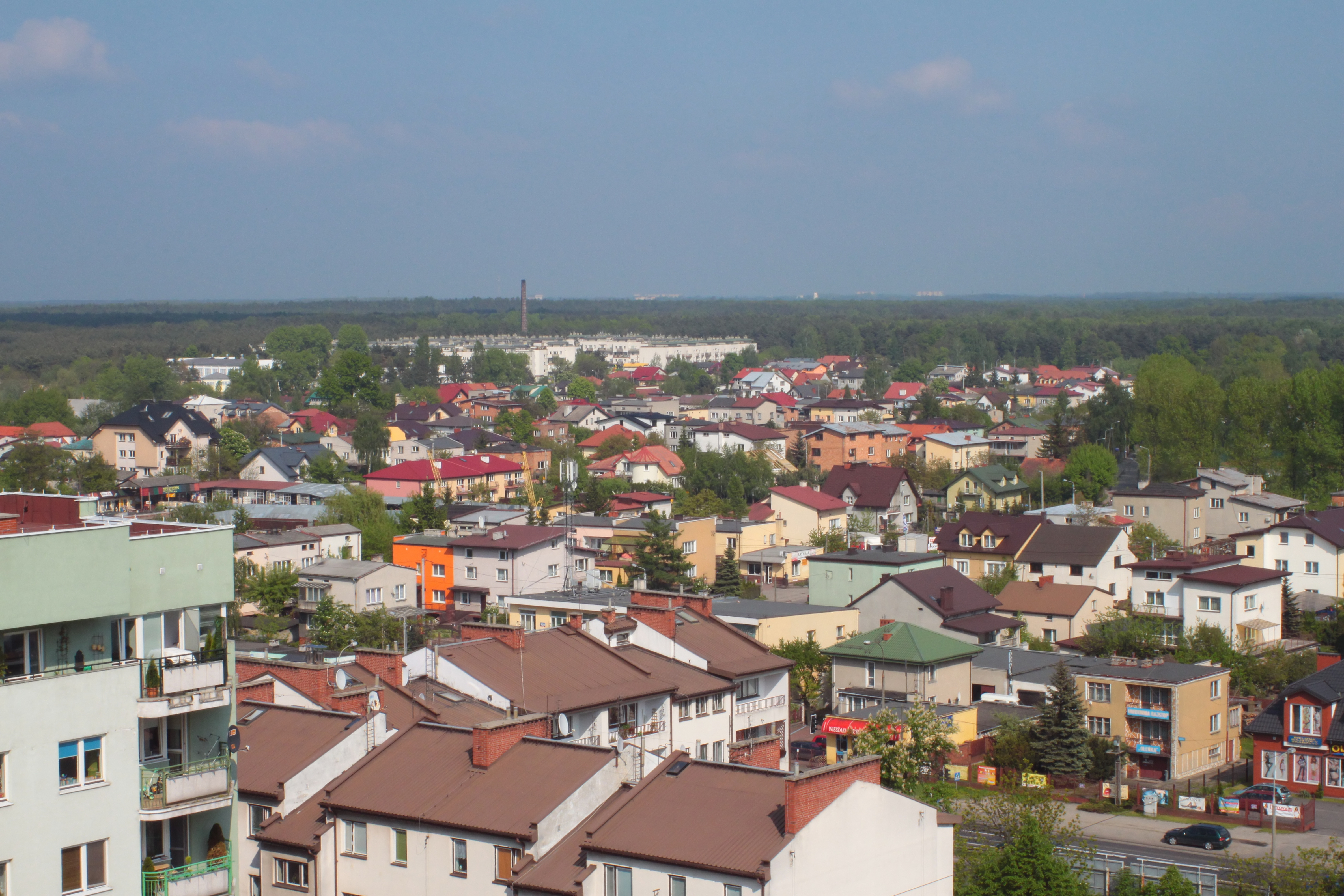 Pustelnik Wschodni, Marki, Poland